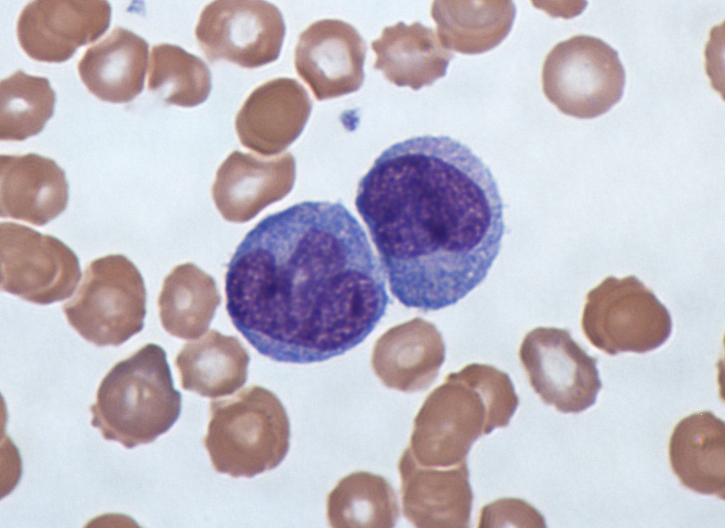 Micrograph of Giemsa-stained monocytes